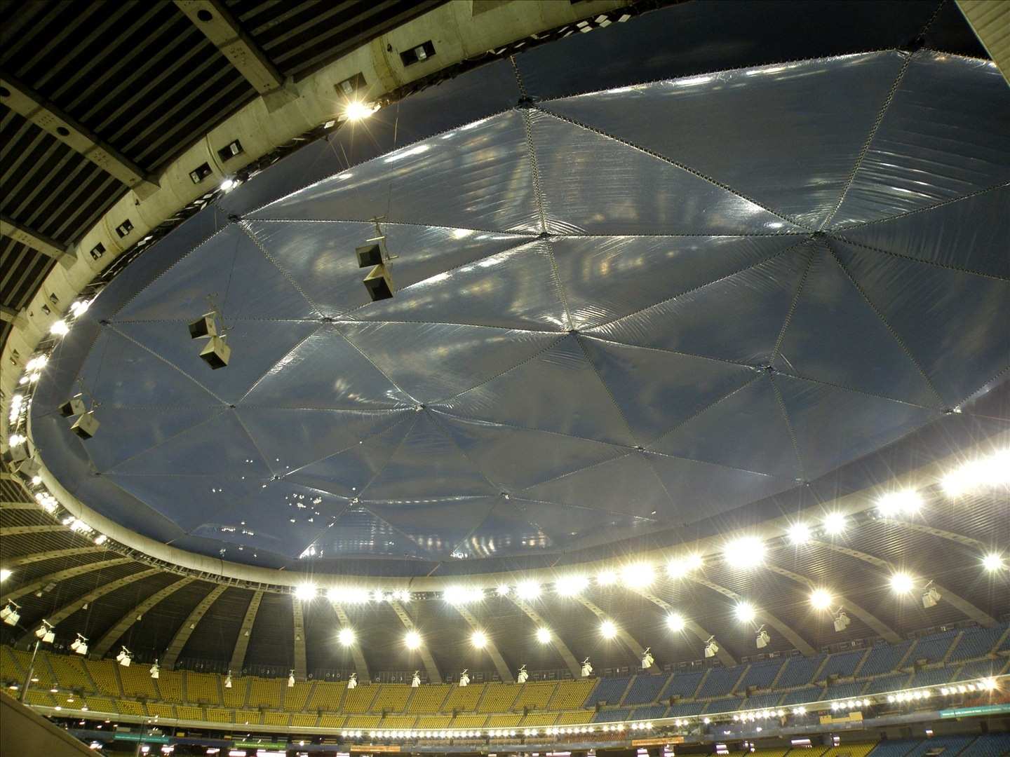 Olympic Stadium in Montreal, Canada